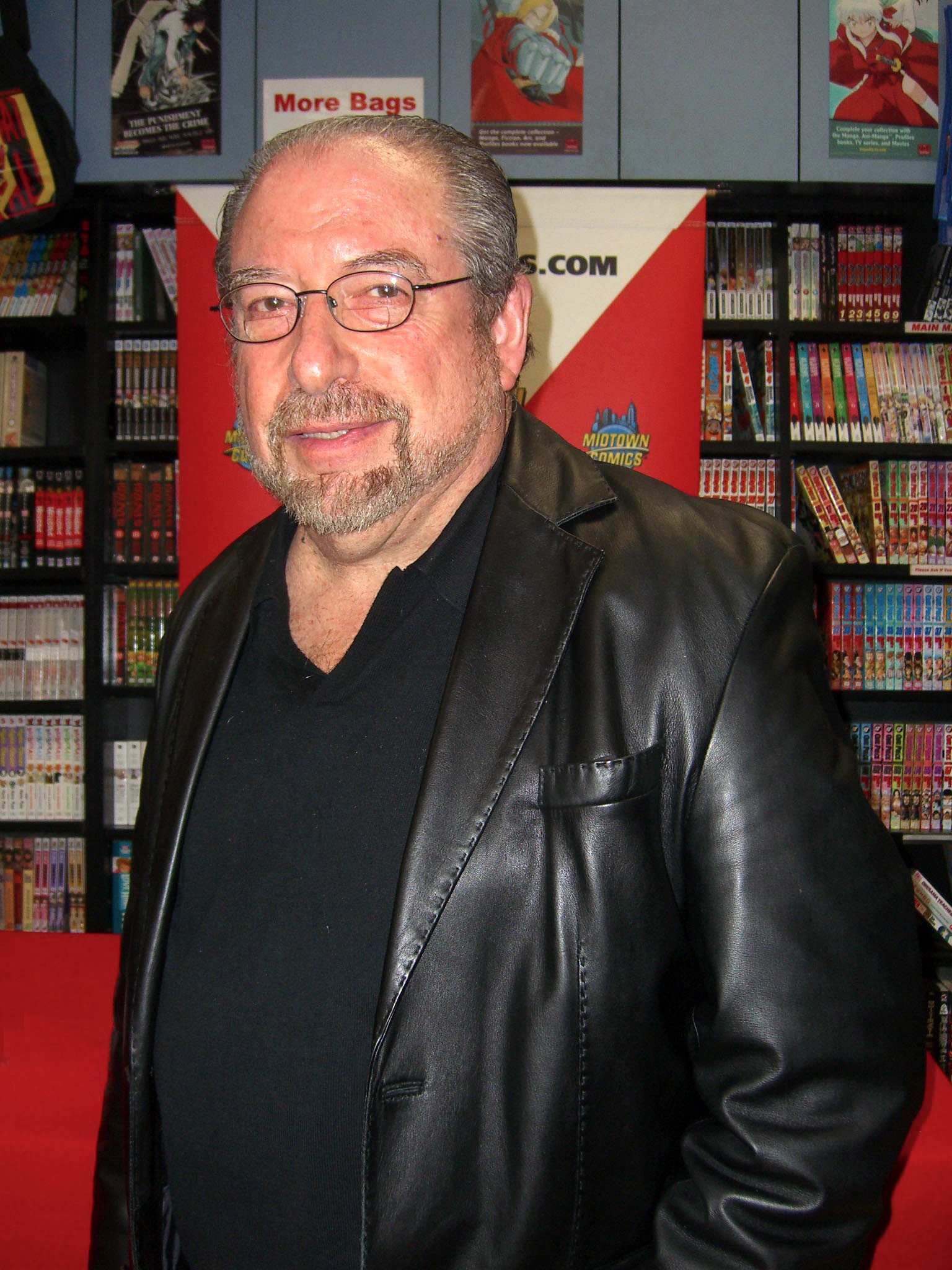 Archie Comics Editor in Chief Victor Gorelick at a December 5, 2012 signing for Archie's Pal Kevin Keller #6 at Midtown Comics Times Square in Manhattan. The signing featured writer Dan Parent, who created Kevin Keller, the first openly gay character to appear in Archie Comics, and Star Trek star George Takei, who is an activist for LGBT rights, and guest starred in the book. This photo was created by Luigi Novi. It is not in the public domain, and use of this file outside of the licensing terms is a copyright violation.